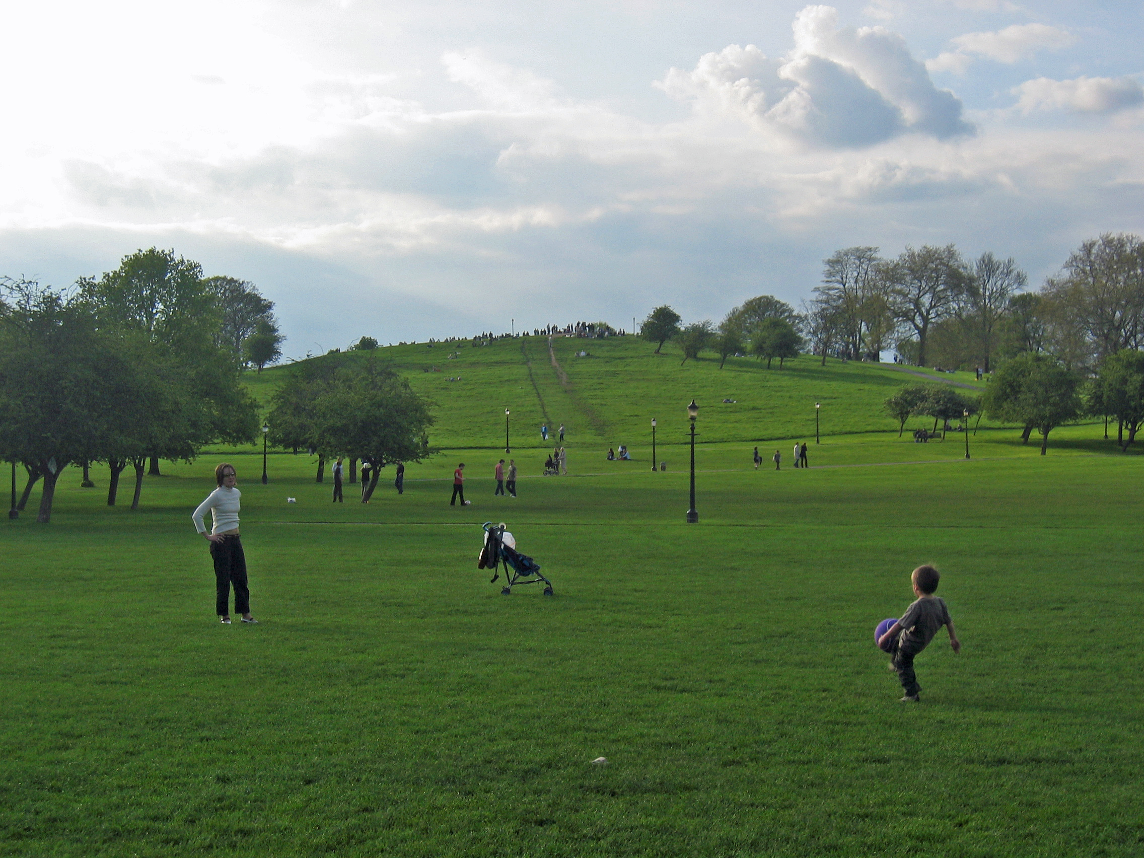 Primrose Hill, London